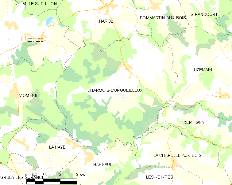 Map of French municipality Charmois-l'Orgueilleux